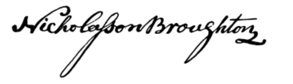 Nicholson Broughton (1724-1798) Signature